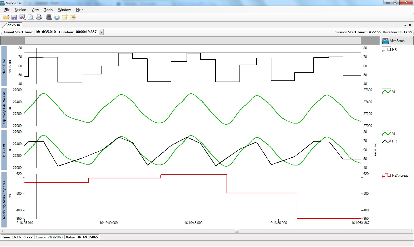 Tidal Volume (Vt) and Heart Rate(HR) plotted on the same chart showing how as a subject breathes in HR increases, and as they breathe out HR decreases. This is a snapshot from the VivoSense software